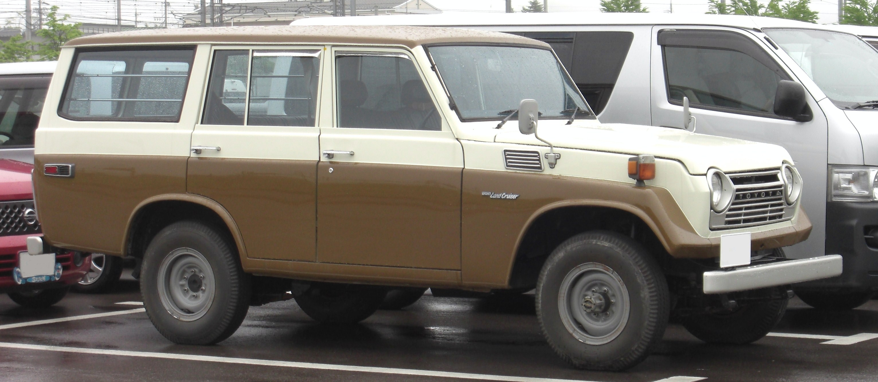 Toyota Land Cruiser in Japan (FJ56V-KC or J-FJ56V-KC)